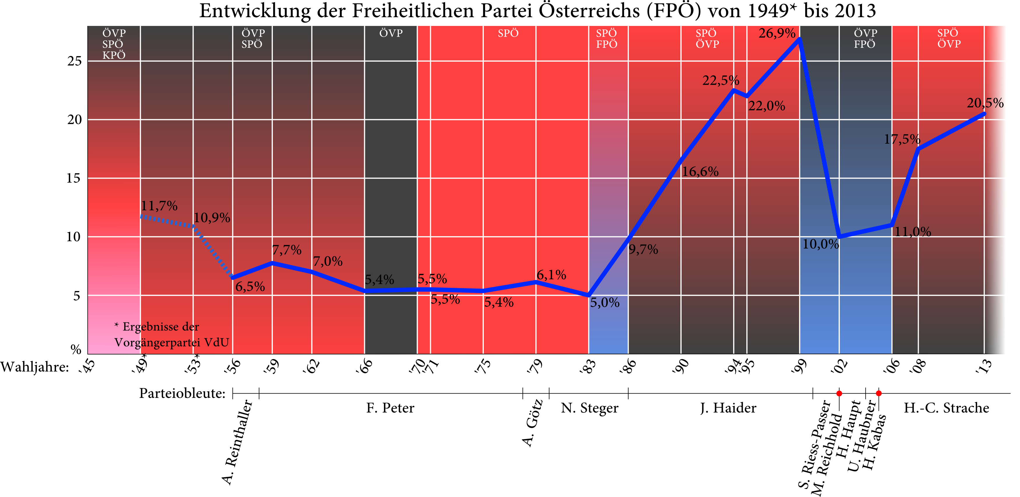 Austrian Party FPÖ, election results and heads of party, 1945-2013.